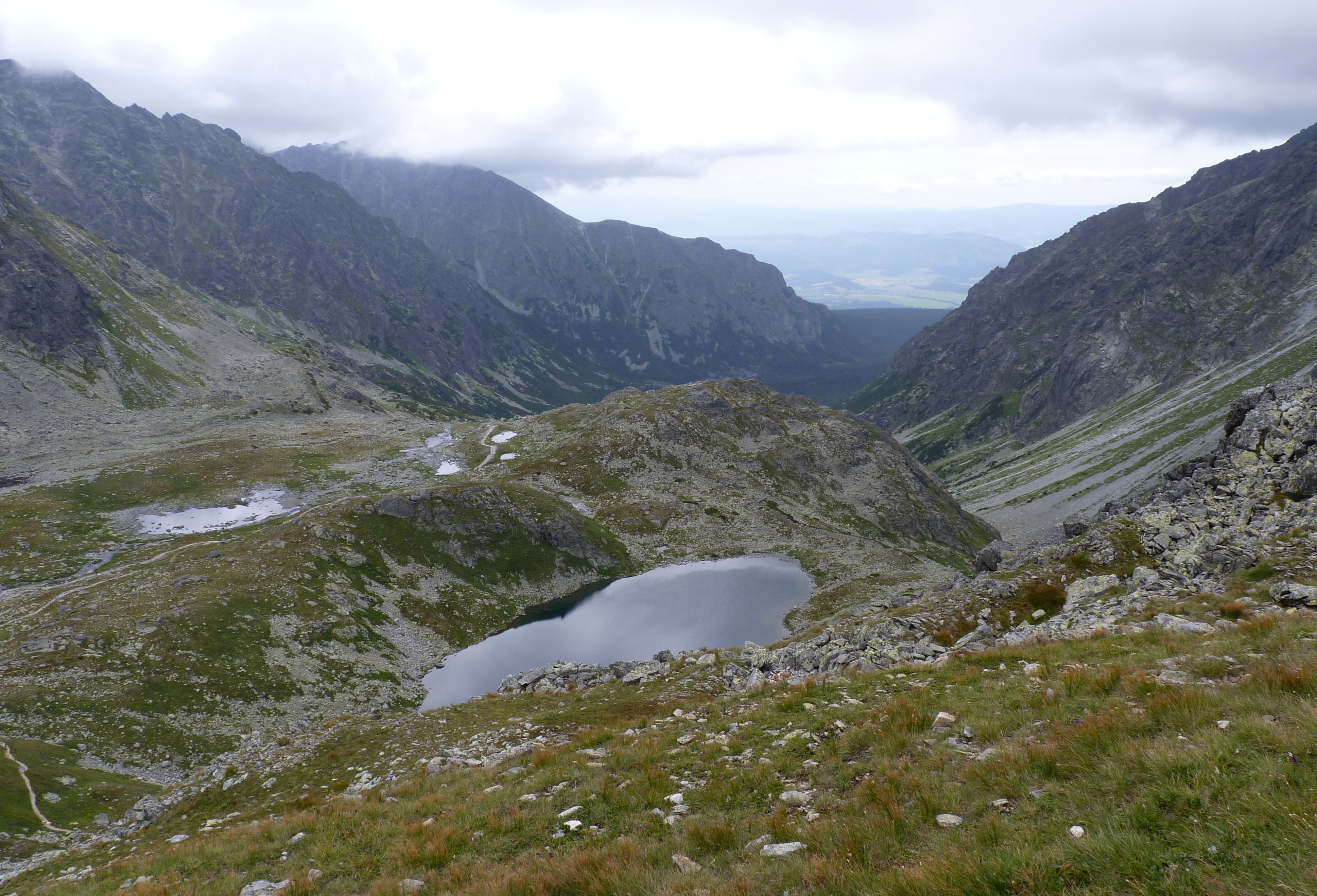 Malé Hincovo pleso. Mengusovská Valley, Tatra Mountains, Slovakia